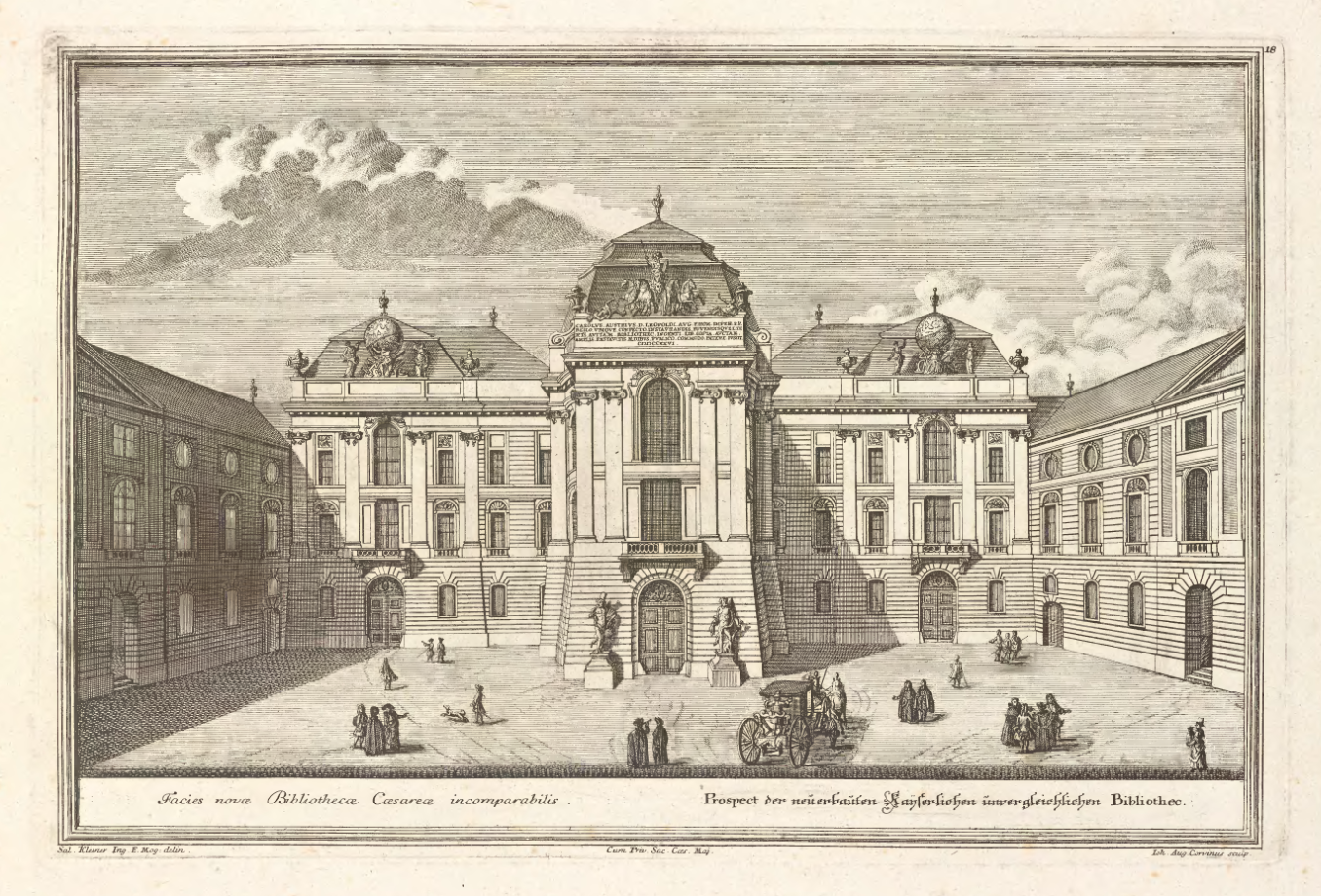 The Josefsplatz in Vienna with the Imperial Library, today the Austrian National Library. Engraving by Salomon Kleiner, 1733